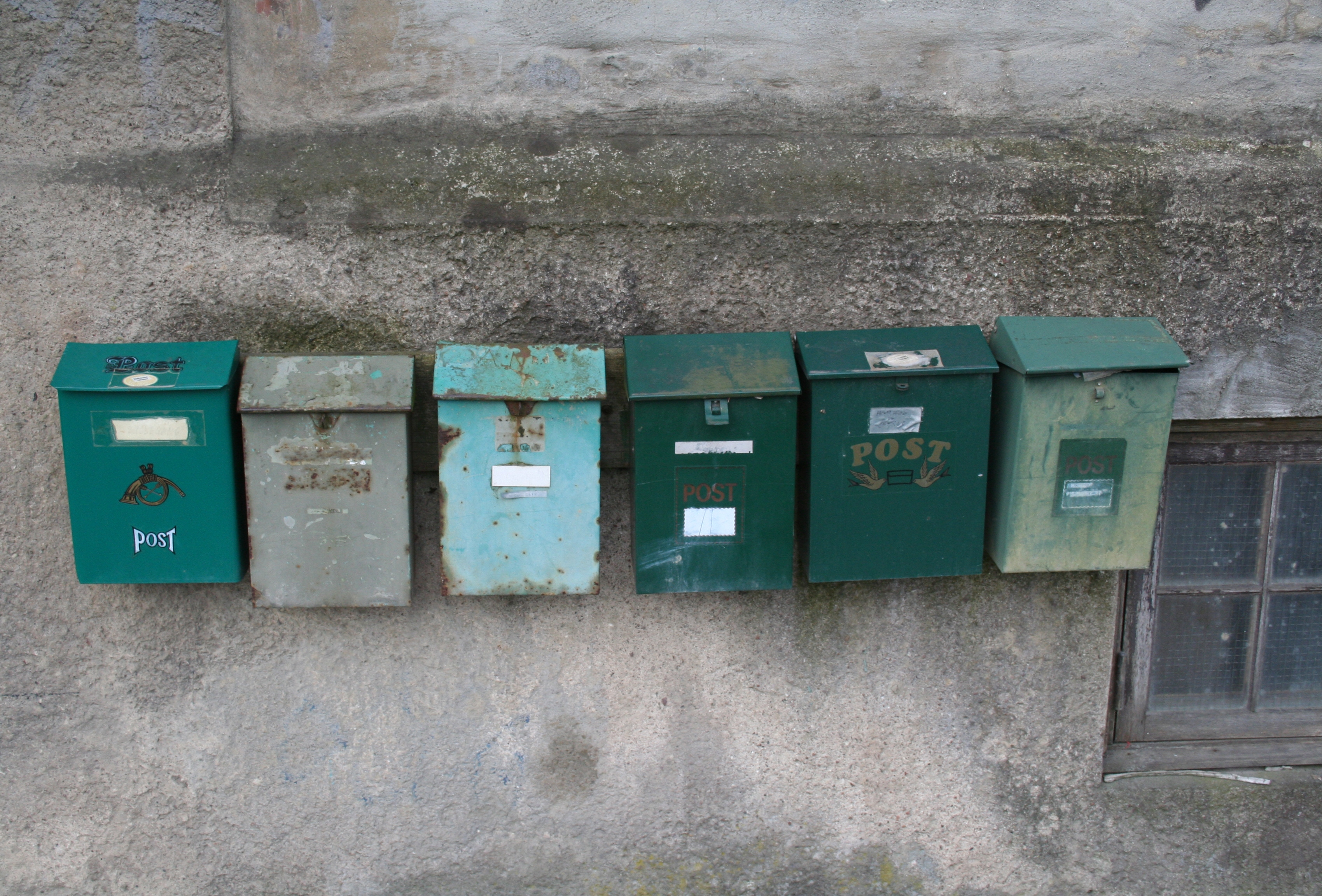 Typical Norwegian post boxes.